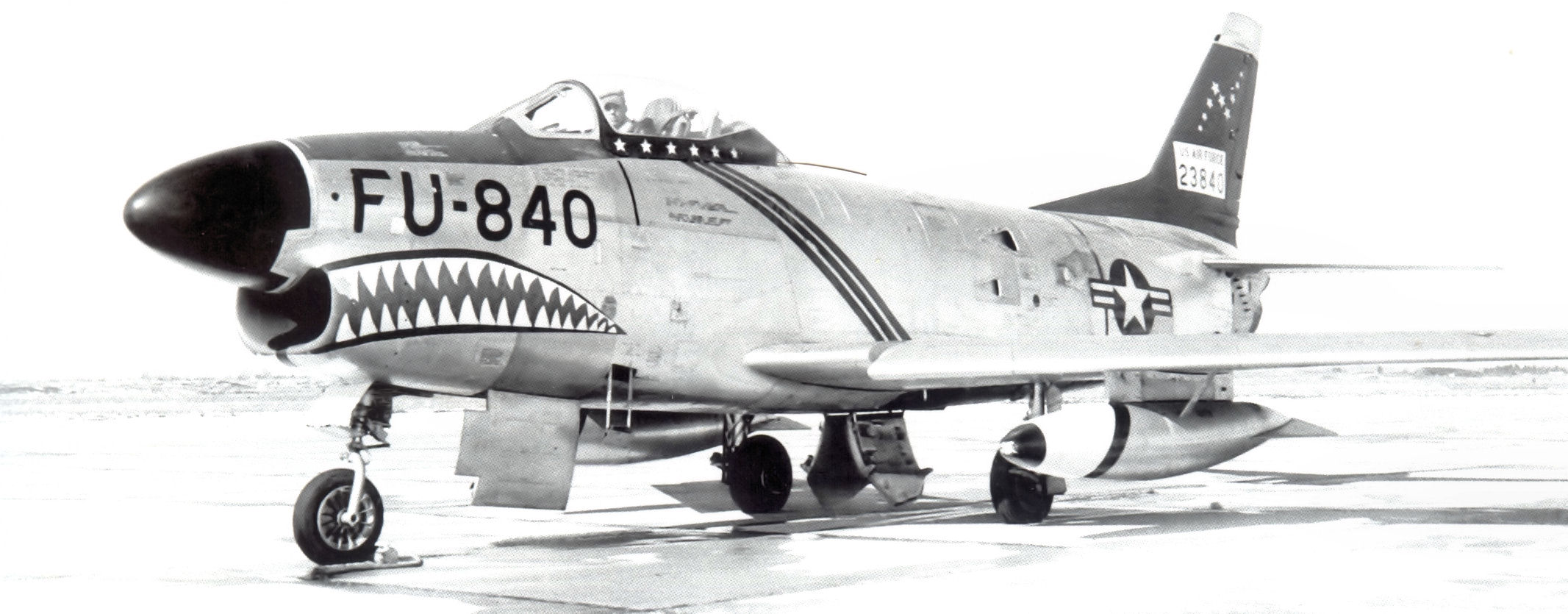 520th Fighter-Interceptor Squadron North American F-86D-40-NA Sabre 52-3840 530th Air Defense Group, Geiger Field, Washington, February 1955 Note 3 stripes on aircraft indicating squadron commander's aircraft